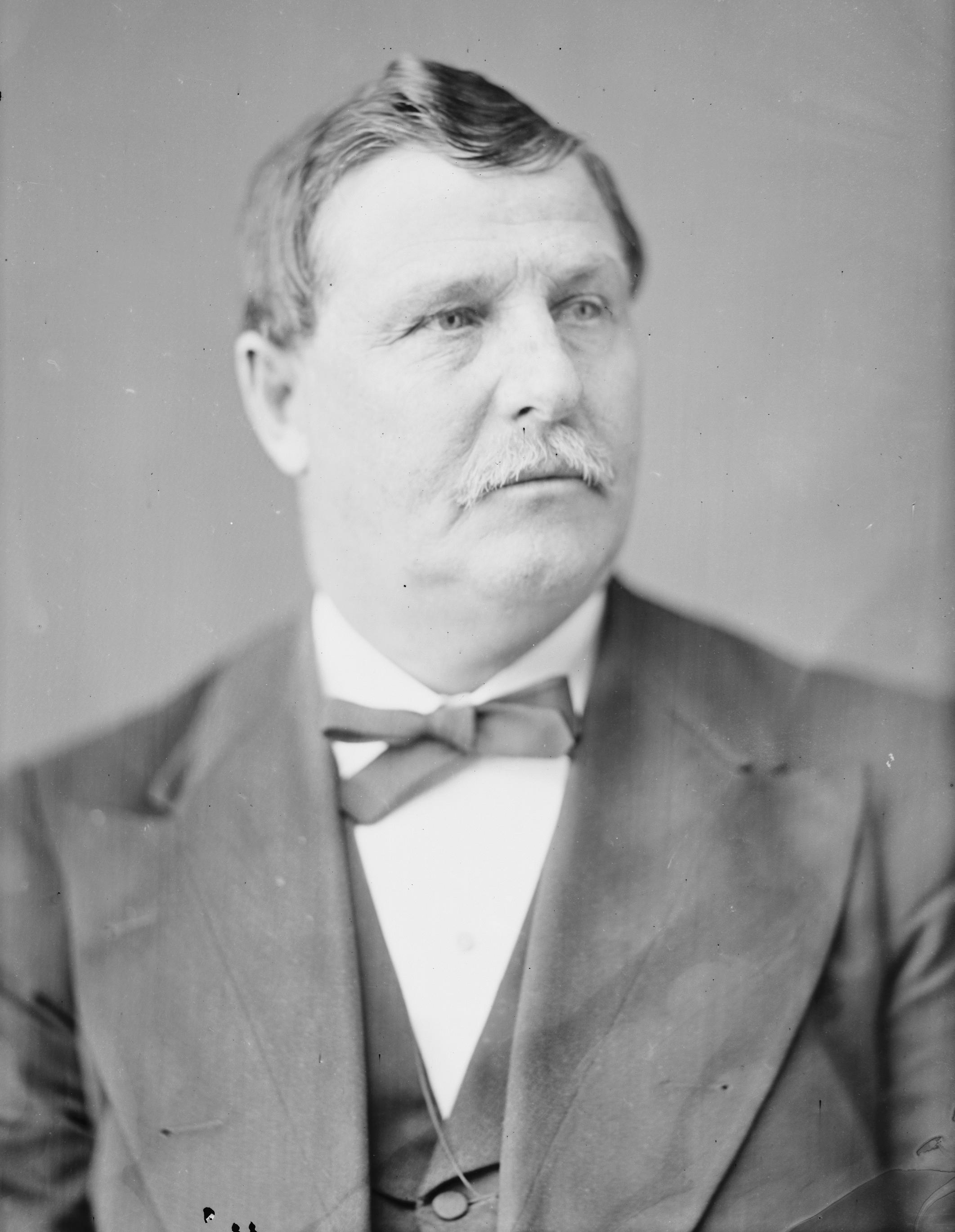 William S. King. Library of Congress description: "King, Hon. Wm S. of Minn.".